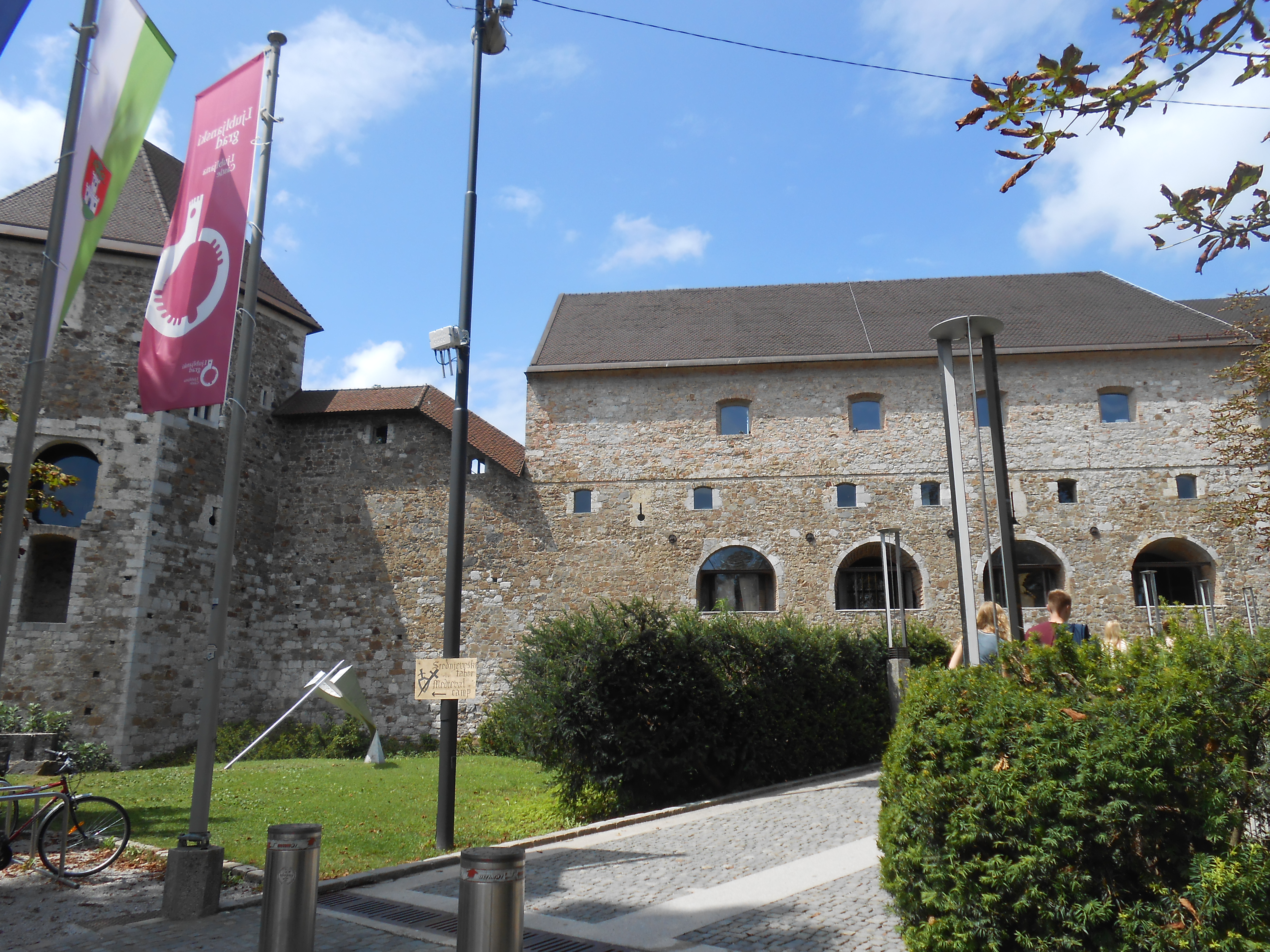 Ljubljana Castle, Ljubljana, Slovenia, 2